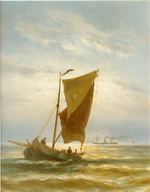 Uitvarende vissersboot bij Vlissingen